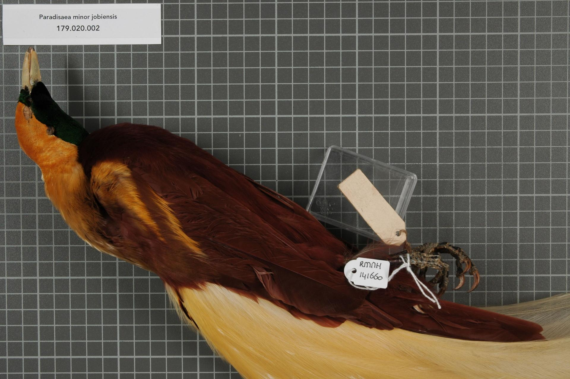 Paradisaea minor jobiensis Rothschild, 1897